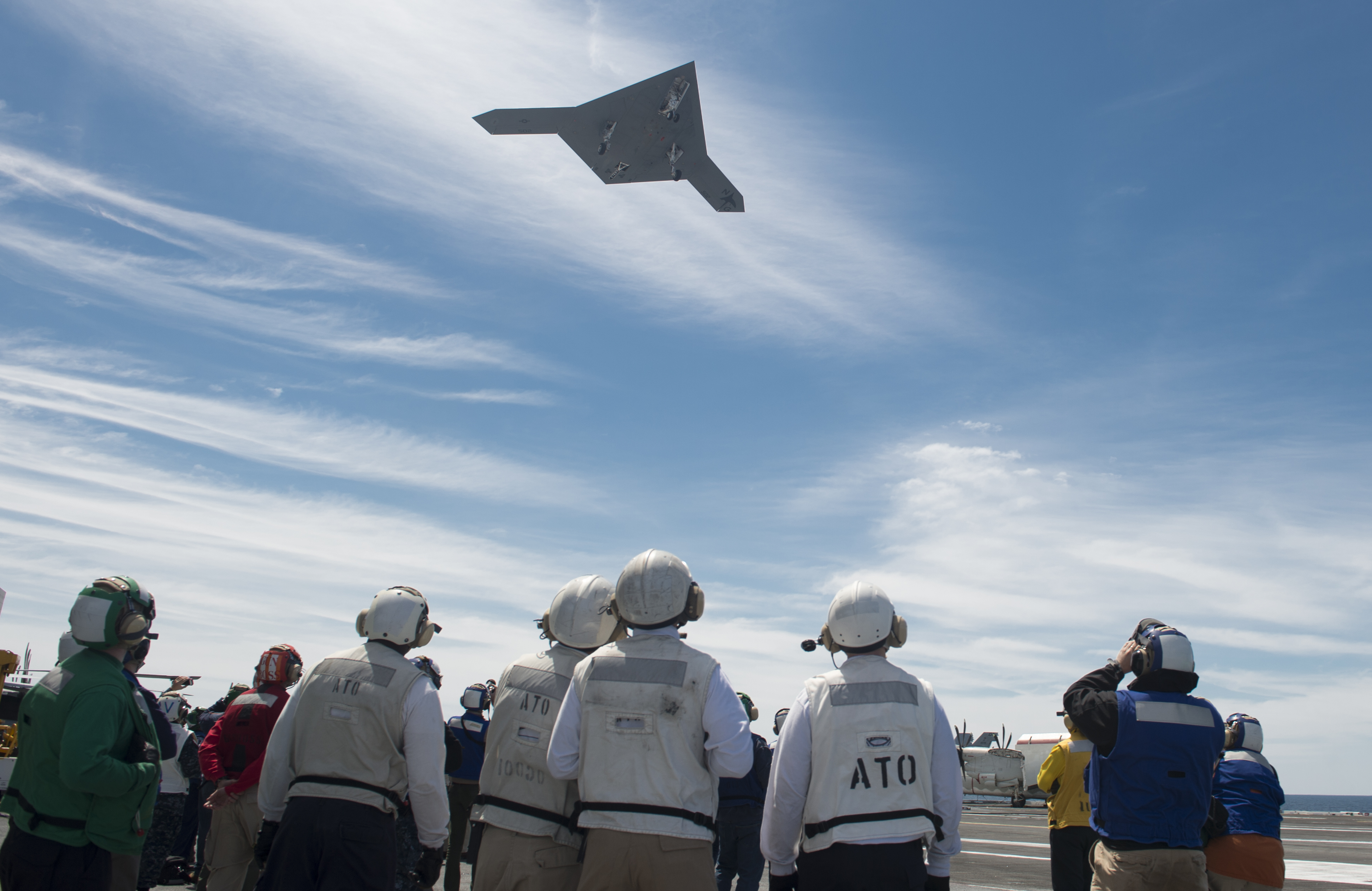 An X-47B Unmanned Combat Air System (UCAS) demonstrator flies over the flight deck of the aircraft carrier USS George H.W. Bush (CVN 77) in the Atlantic. George H.W. Bush is the first aircraft carrier to successfully catapult launch an unmanned aircraft from its flight deck.